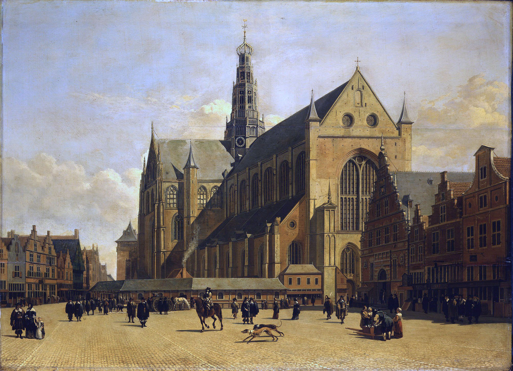 The Market Place at Haarlem, Looking towards the Grote Kerk by Gerrit Adriaenszoon Berckheyde, 1665, oil on panel, 54 x 81.5 cm.